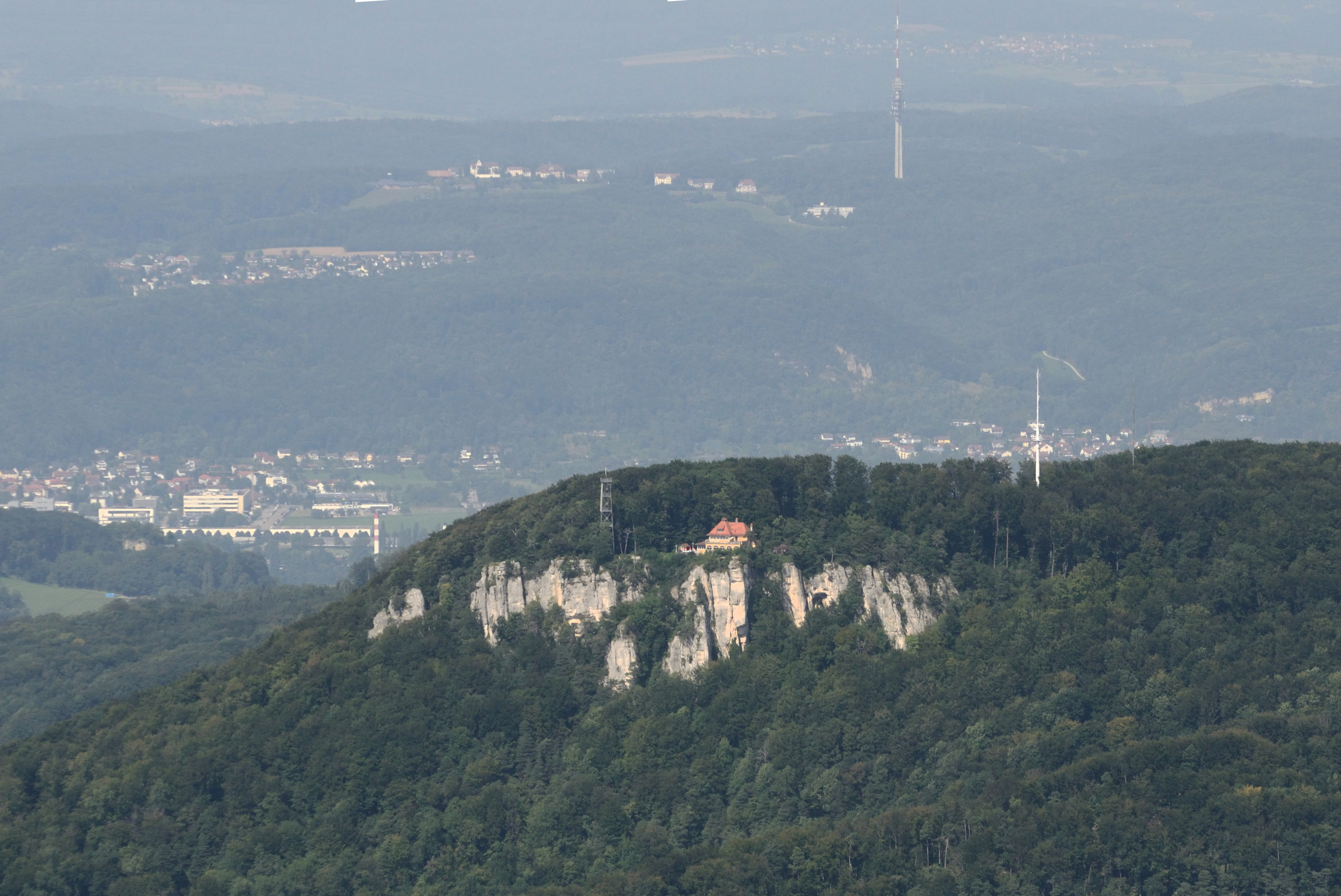 aerial view of Gempen